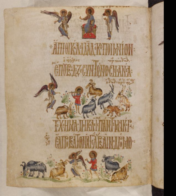 Add MS 19352, ff 189v-191 Twelve syllable verses in the form of a liturgical drama, in dialogue, based on Psalm 151.